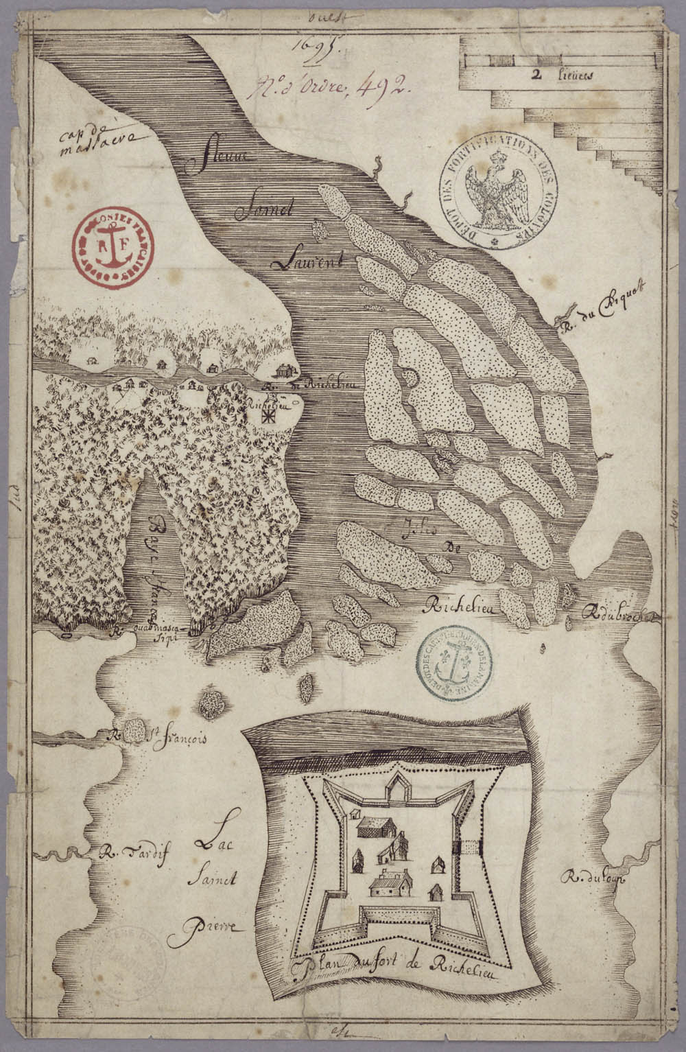 Plan of Fort Richelieu, near Sorel-Tracy, Quebec, Canada